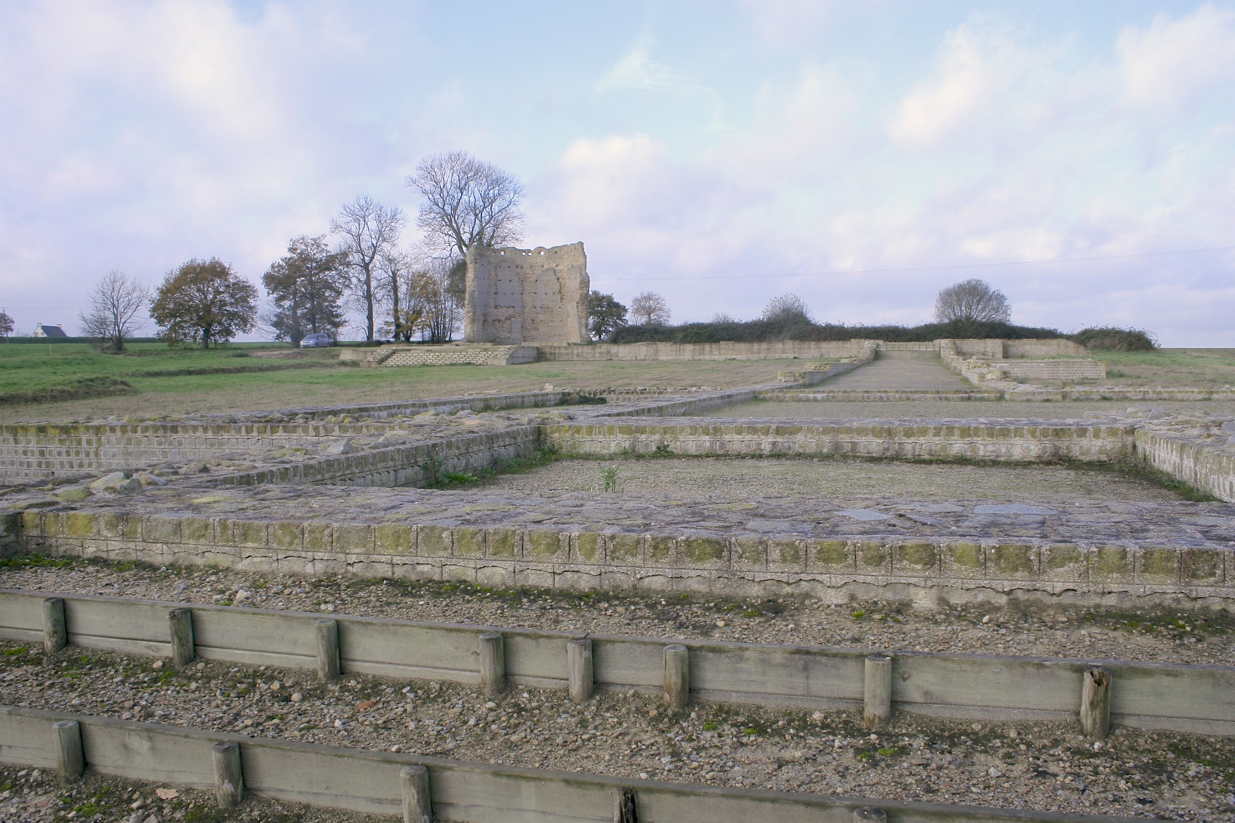 Temple de Mars, at Haut-Bécherel near Corseul